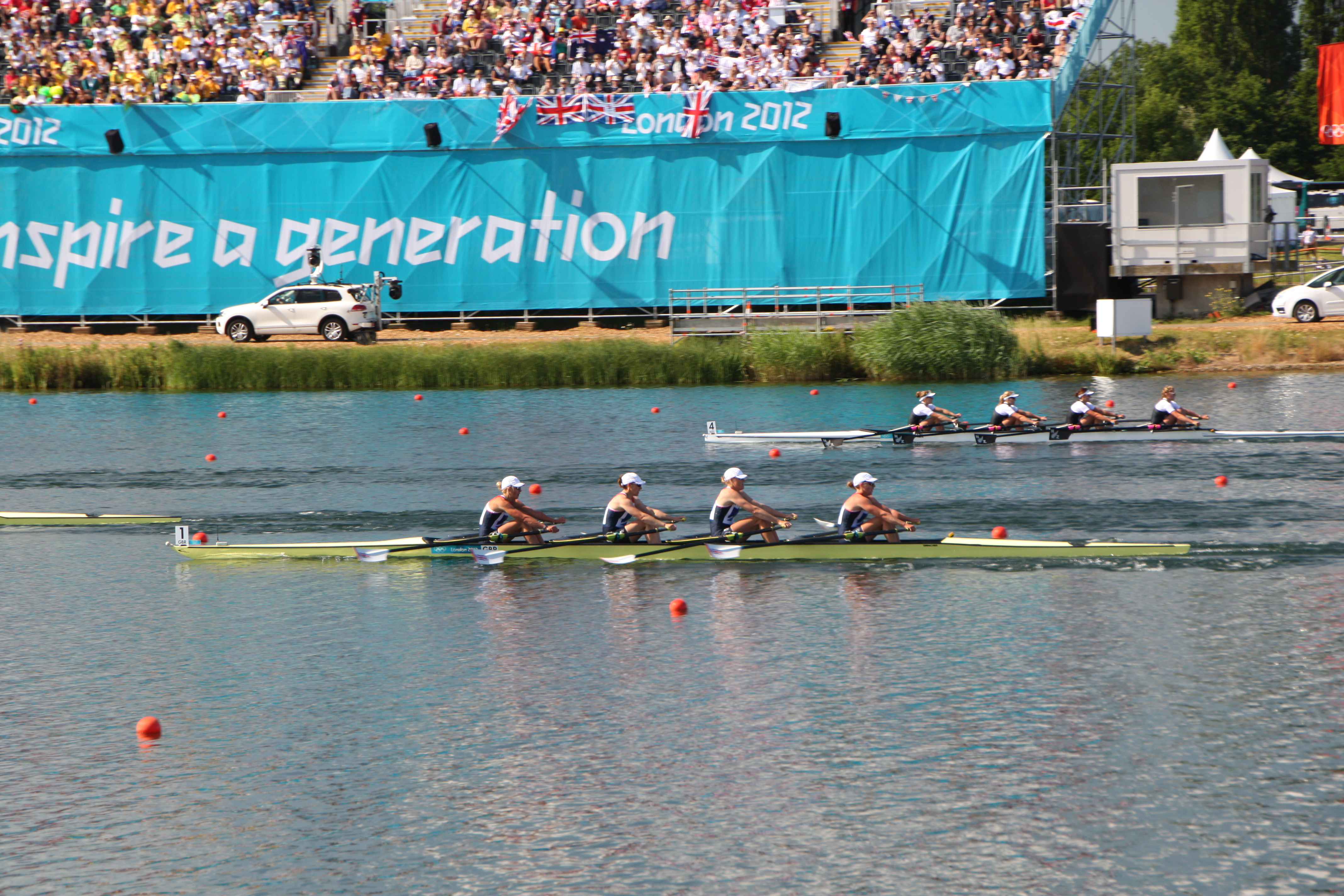 Rowing at the 2012 Summer Olympics – Women's quadruple sculls heat 2 middle: Great Britain (Melanie Wilson, Debbie Flood, Frances Houghton, Beth Rodford) right: New Zealand (Sarah Gray, Louise Trappitt, Fiona Bourke, Eve MacFarlane) IMG_9174